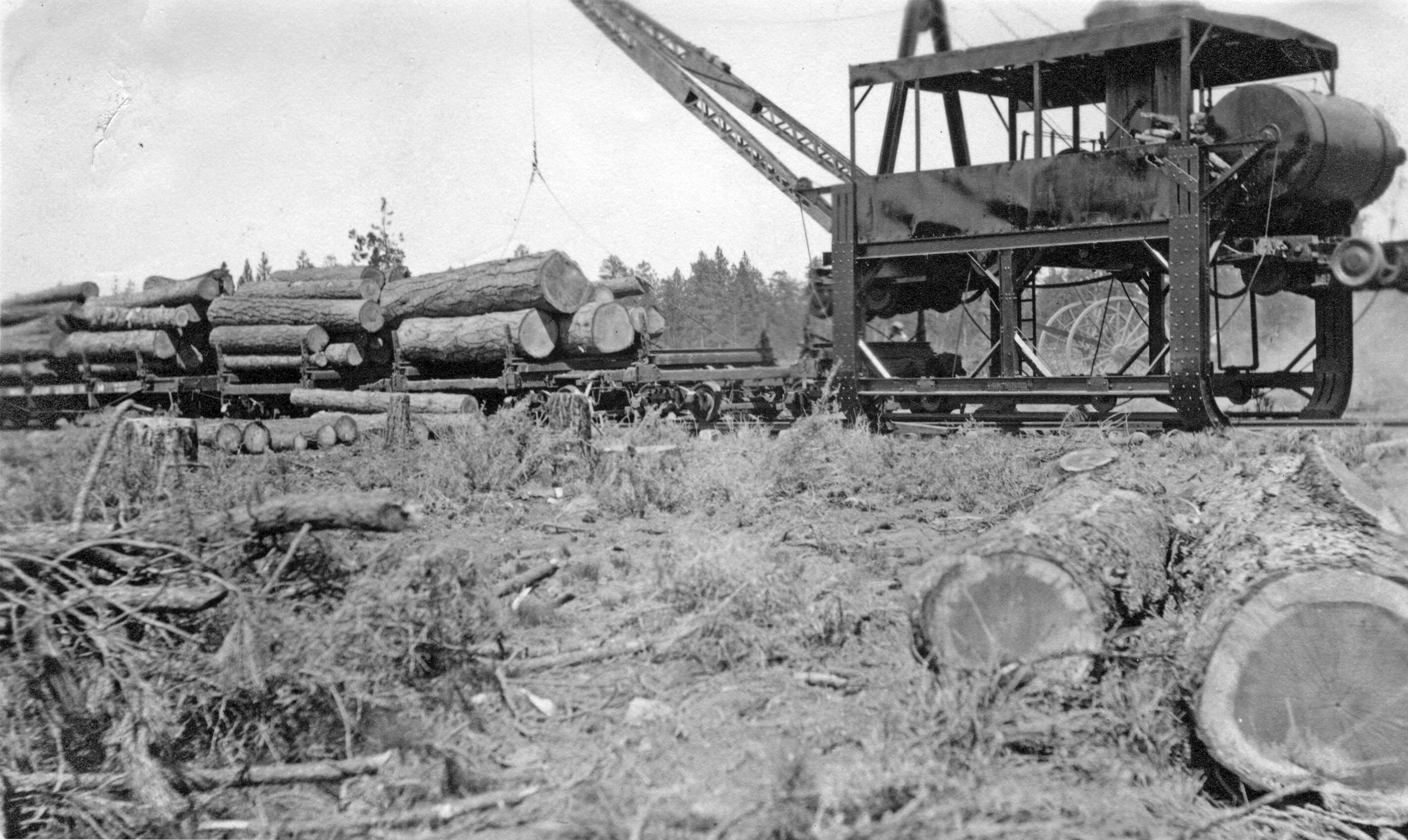 Original Collection: Gerald W. Williams Collection Item Number: WilliamsG_CO_loader You can find this image by searching for the item number by clicking Want more? You can find more We're happy for you to share this digital image within the spirit of The Commons; however, certain restrictions on high quality reproductions of the original physical version may apply. To read more about what “no known restrictions” means, please visit the or contact staff at the OSU Special Collections & Archives Research Center for details.